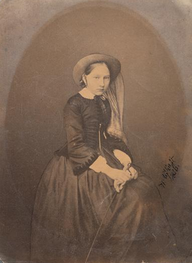 Portrait photograph of Maria Ana of Braganza, Infanta of Portugal, taken in 1856 by Wenceslau Cifka.